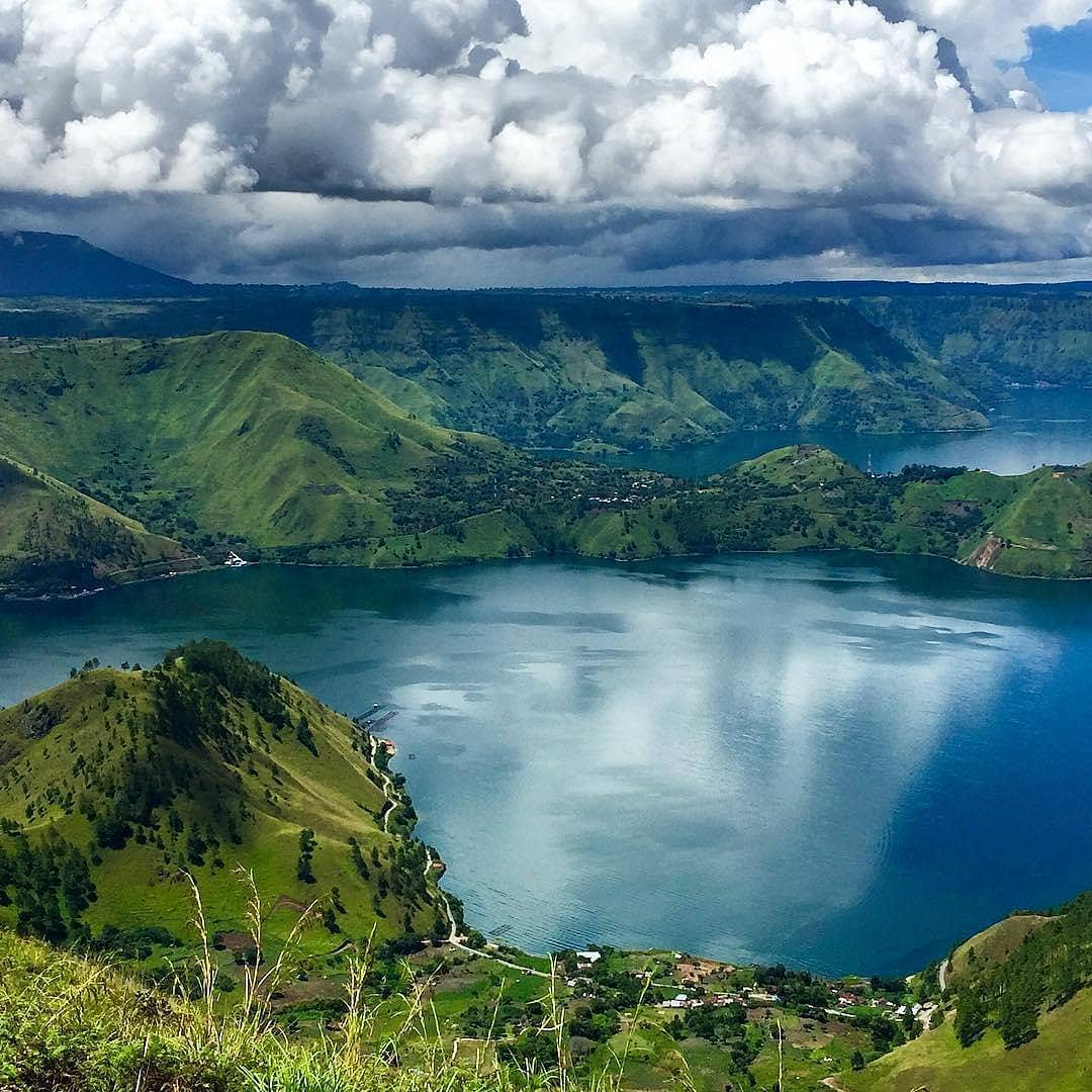 Lake Toba is an extraordinary natural wonder of the world. This enormous crater lake consists of an island almost the size of Singapore in its center. At over 1,145 square km, and a depth of 450 meters, Lake Toba is actually more like an ocean. This is the largest lake in Southeast Asia and one of the deepest lakes in the world. This photo has been taken in the country: Indonesia